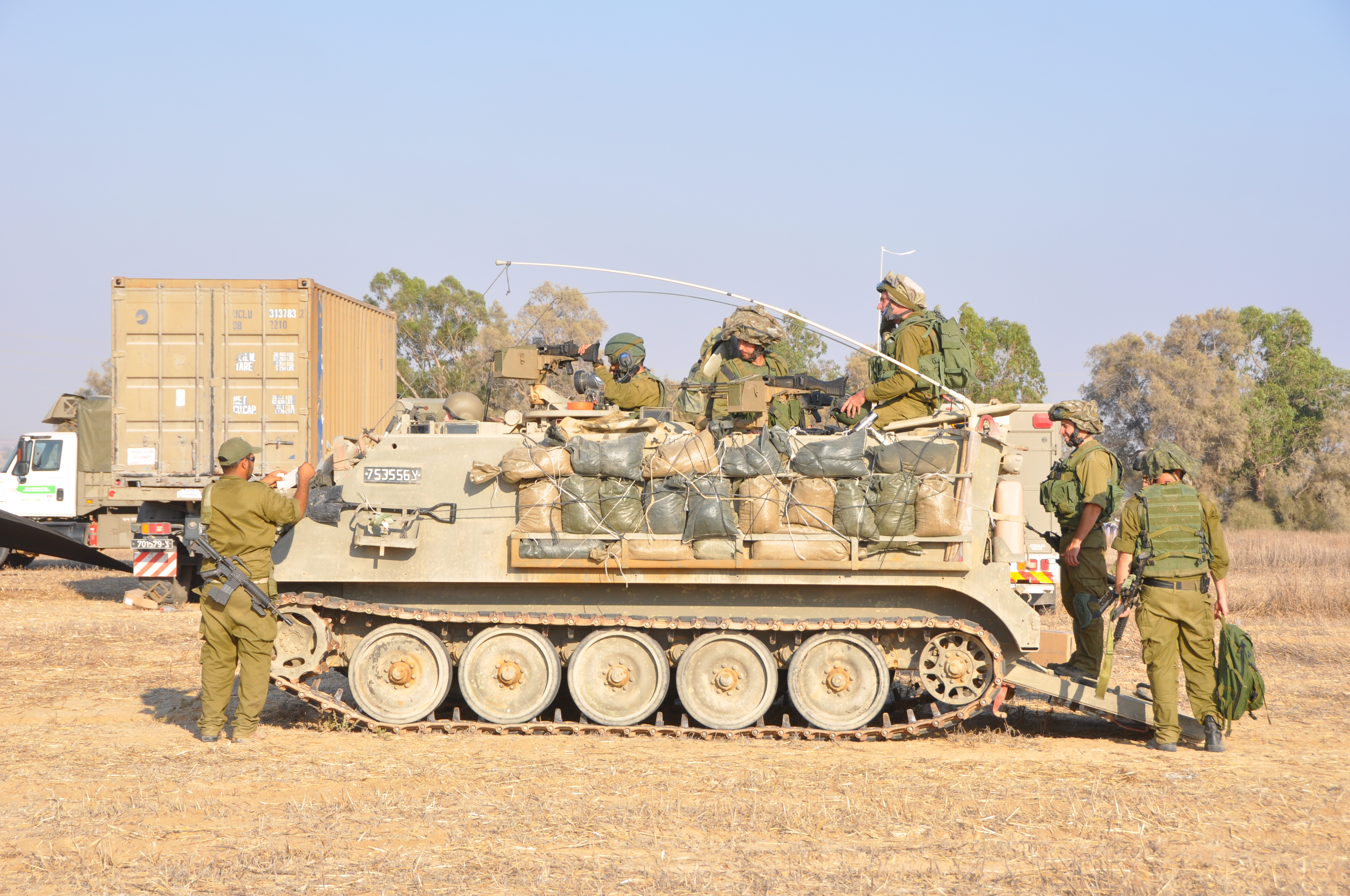 Armored vehicles from the 460th Brigade operating near the Gaza border